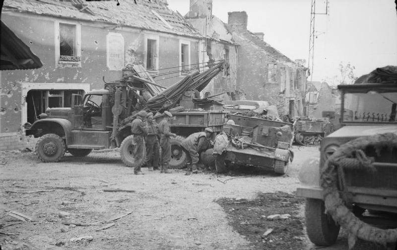 The British Army in Normandy, August 1944- the Advance Towards Aunay-sur-odon A breakdown gang with their Diamond T969 Wrecker (4-ton, 6×) working on wrecked vehicles in the centre of Cahagnes. A battered Bren Gun Carrier was blocking the roadway.